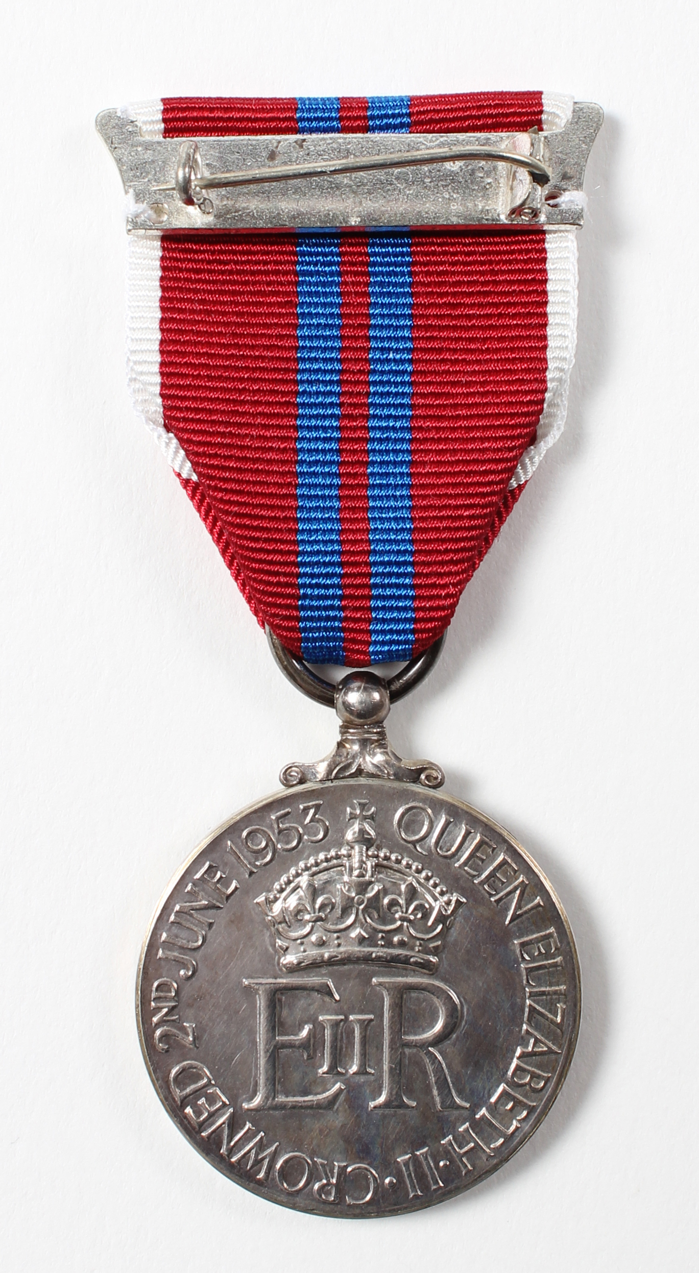 The Coronation Medal 1953 In Royal Mint card box of issue Rim impressed- Mount Everest Expedition